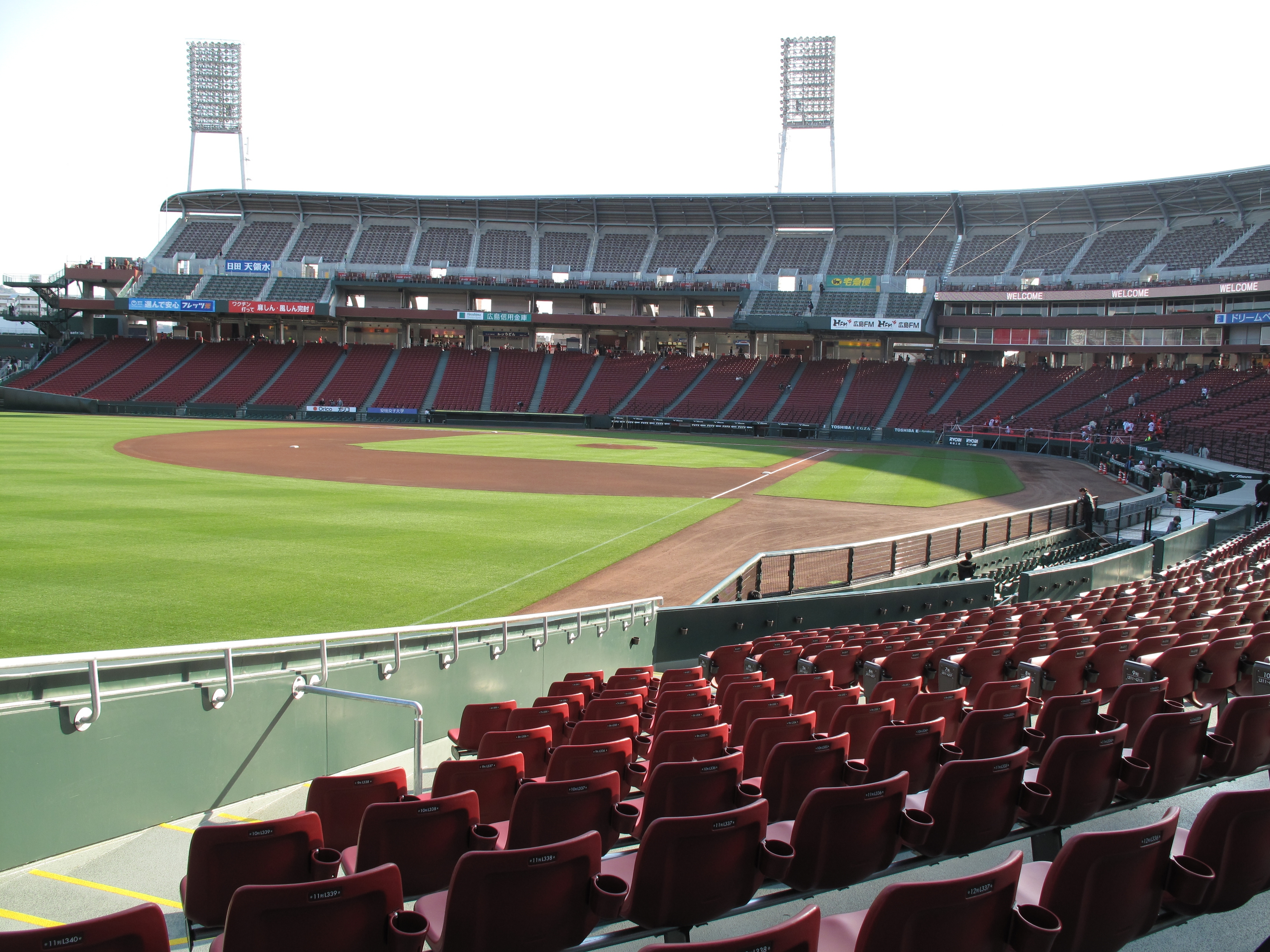 The ground is looked at from three base side Uchino stand on the completed Mazda stadium.